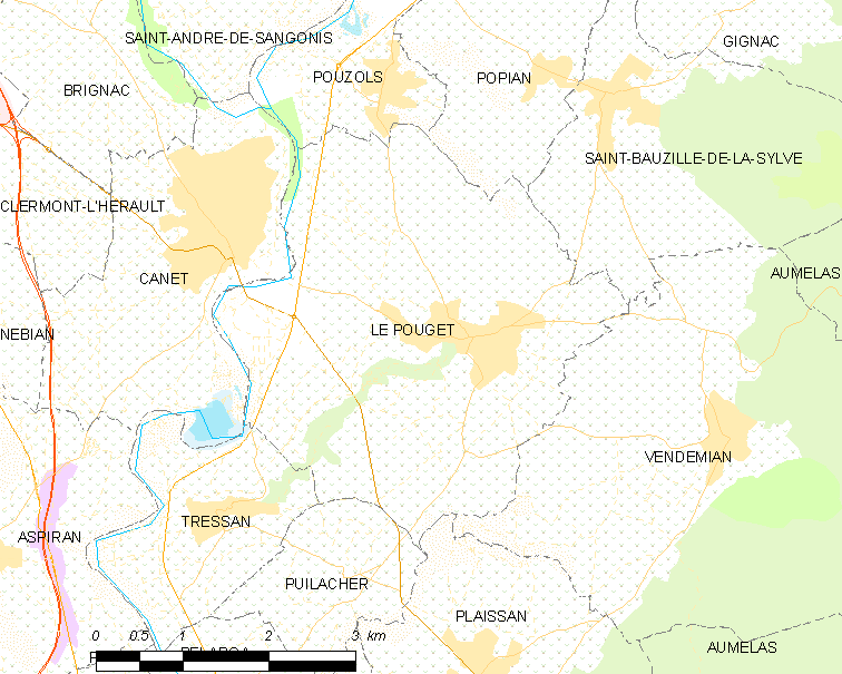 Map commune FR insee code 34210.png - Le Pouget